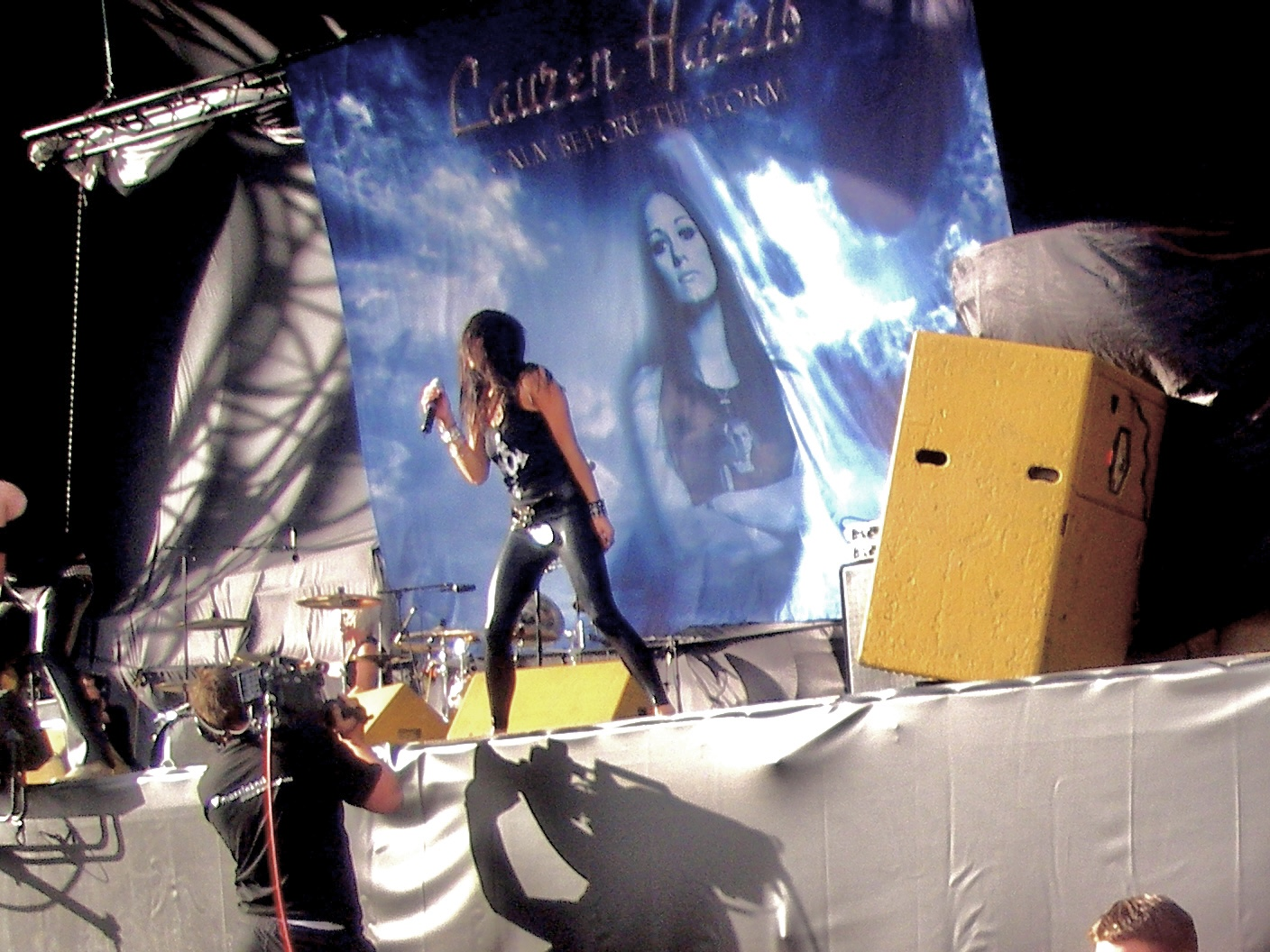 Lauren Harris warms the crowd up!